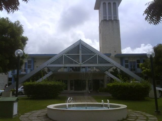 Entrance to the Administration building at the Cave Hill Campus of the University of the West Indies. (Located in Cave Hill, St. Michael).